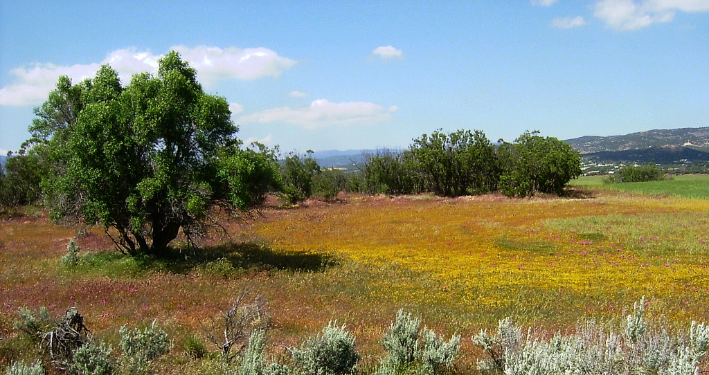 Field in Anza, California, Late spring 2005.